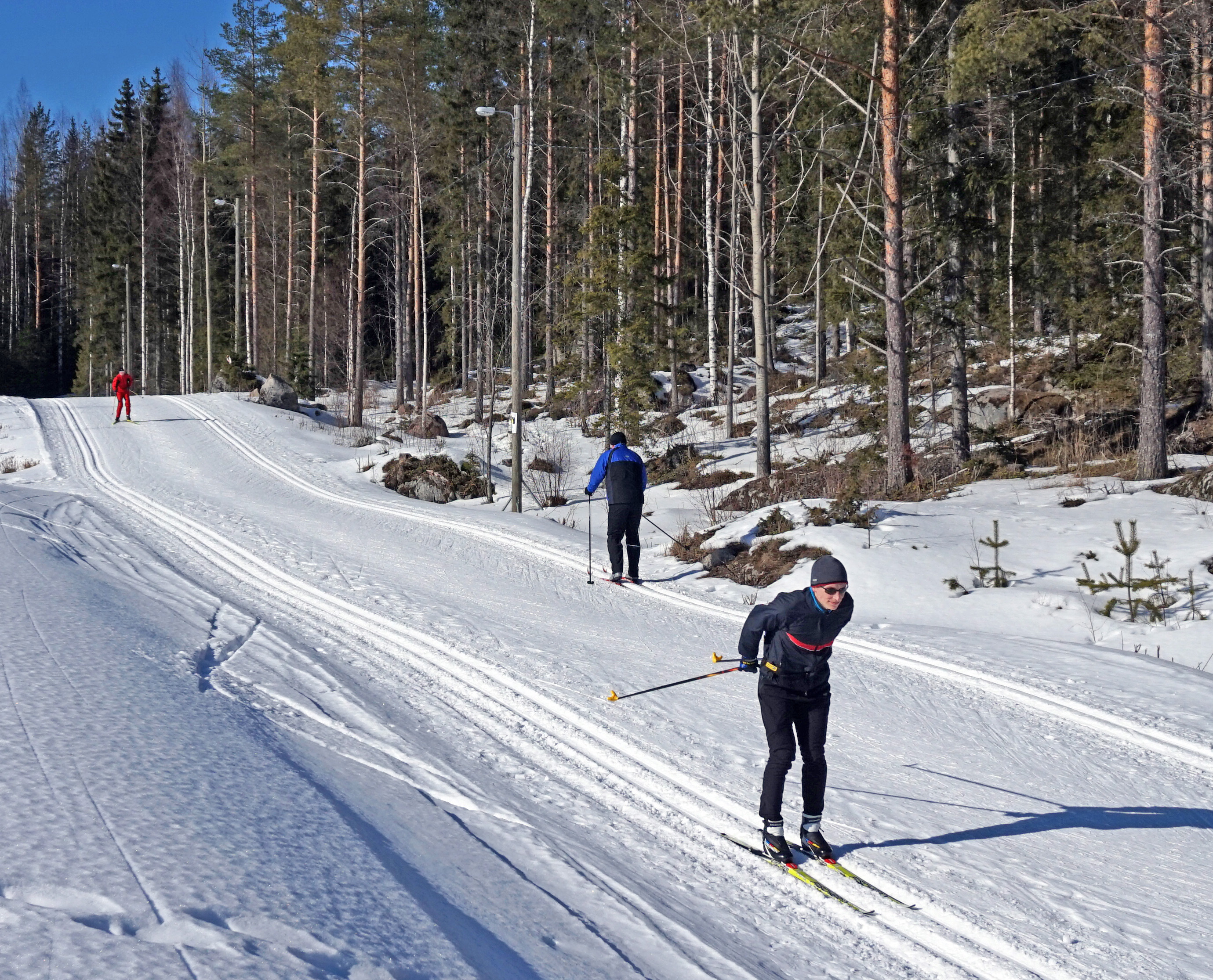 Ski track in Jyväskylä.This photograph was taken with a Sony ILCE-5000